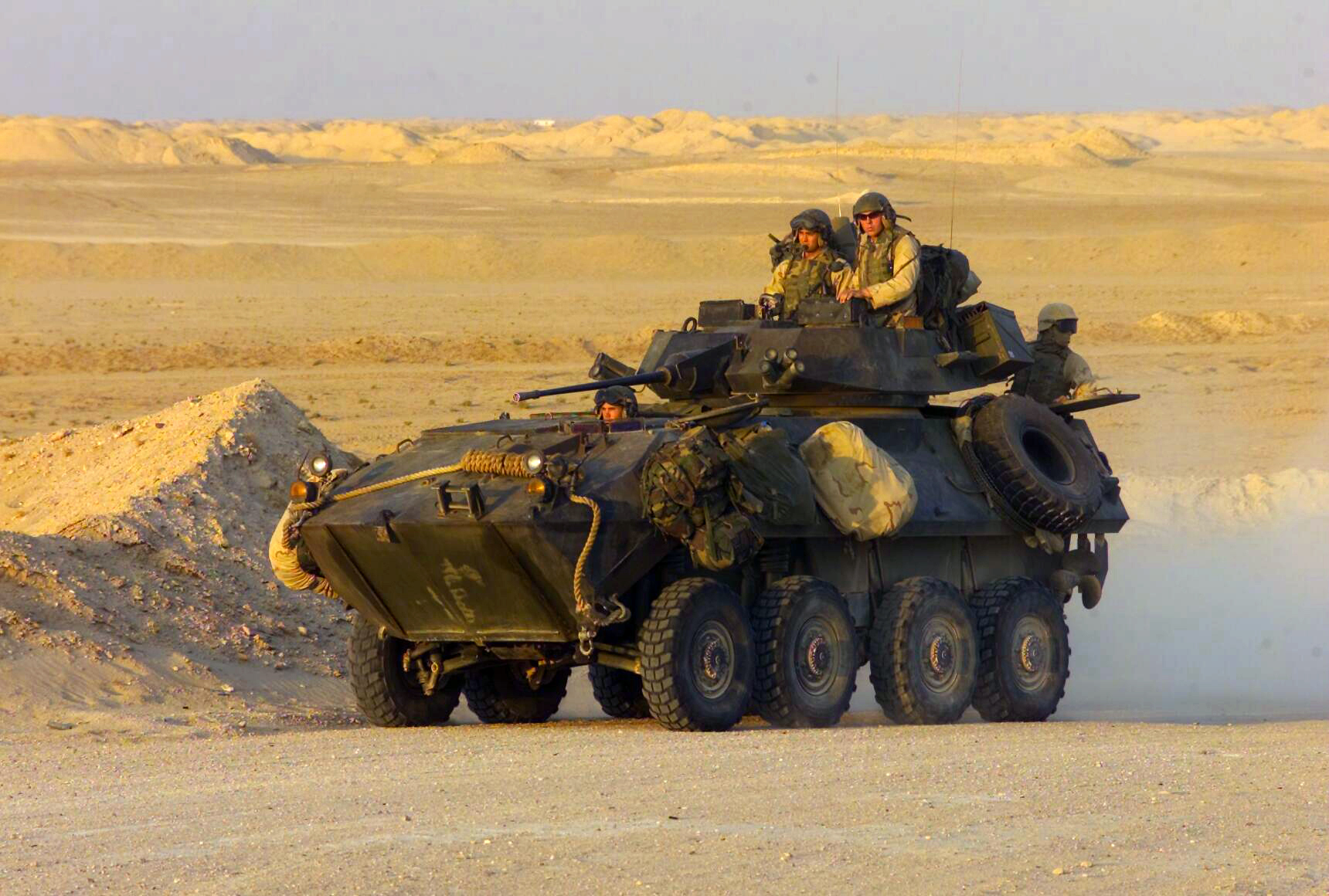 021002-M-2706G-003 Central Command Area of Operation (Oct. 2, 2002) -- Marines with Company D, Light Armored Reconnaissance, Battalion Landing Team 3/1, 11th Marine Expeditionary Unit (MEU) (Special Operations Capable), focus down range during recent live-fire training. With the aid of their Light Armored Vehicle Two Five (LAV-25), the Marines can undertake a number of missions, to include facilitating reconnaissance, artillery direction and ‘hit and run missions.’ Each LAV-25 is equipped with a 25mm chain gun and two M-240E1 machine guns, enabling the Marine gunners to accurately fire on targets while moving at speeds of up to 10 mph due to the vehicle's stabilization system. U.S. Marine Corps photo. (RELEASED).